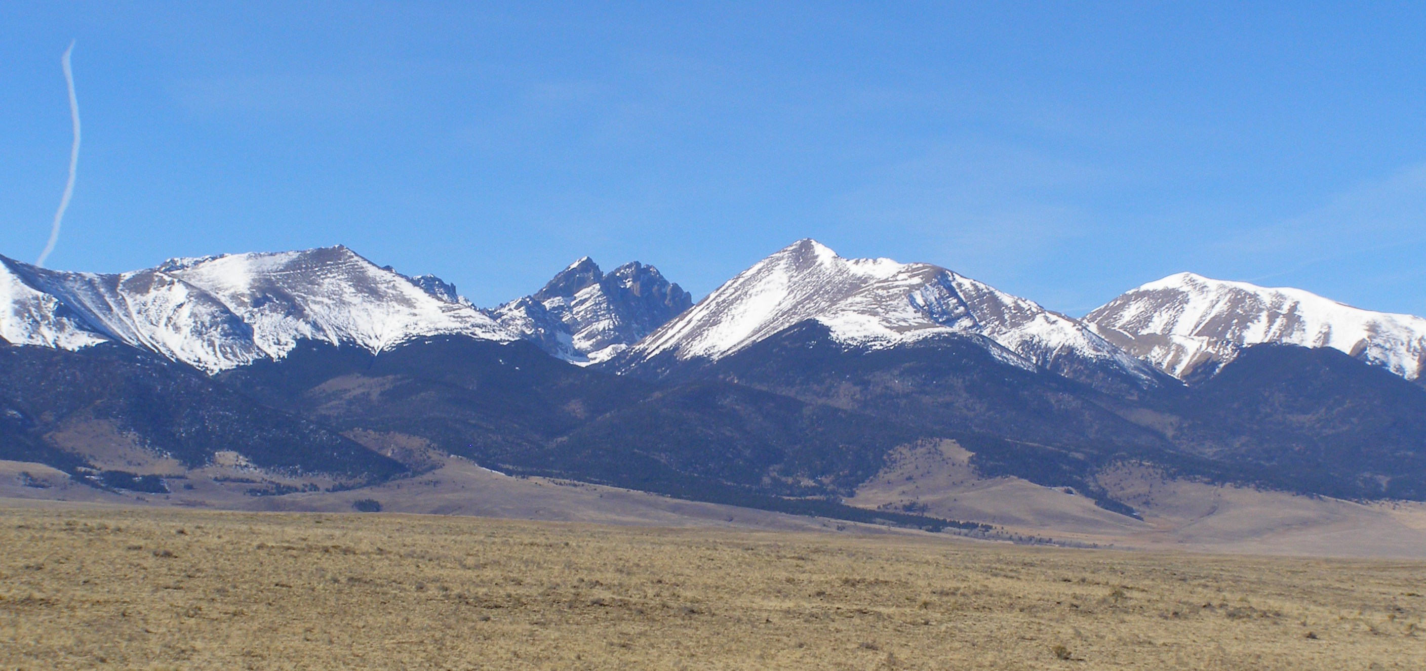 Eastern Sangre de Cristo, Colorado 13ers and 14ers. Taken from the Custer/Huerfano county line along C-69 (circa milepost 42).